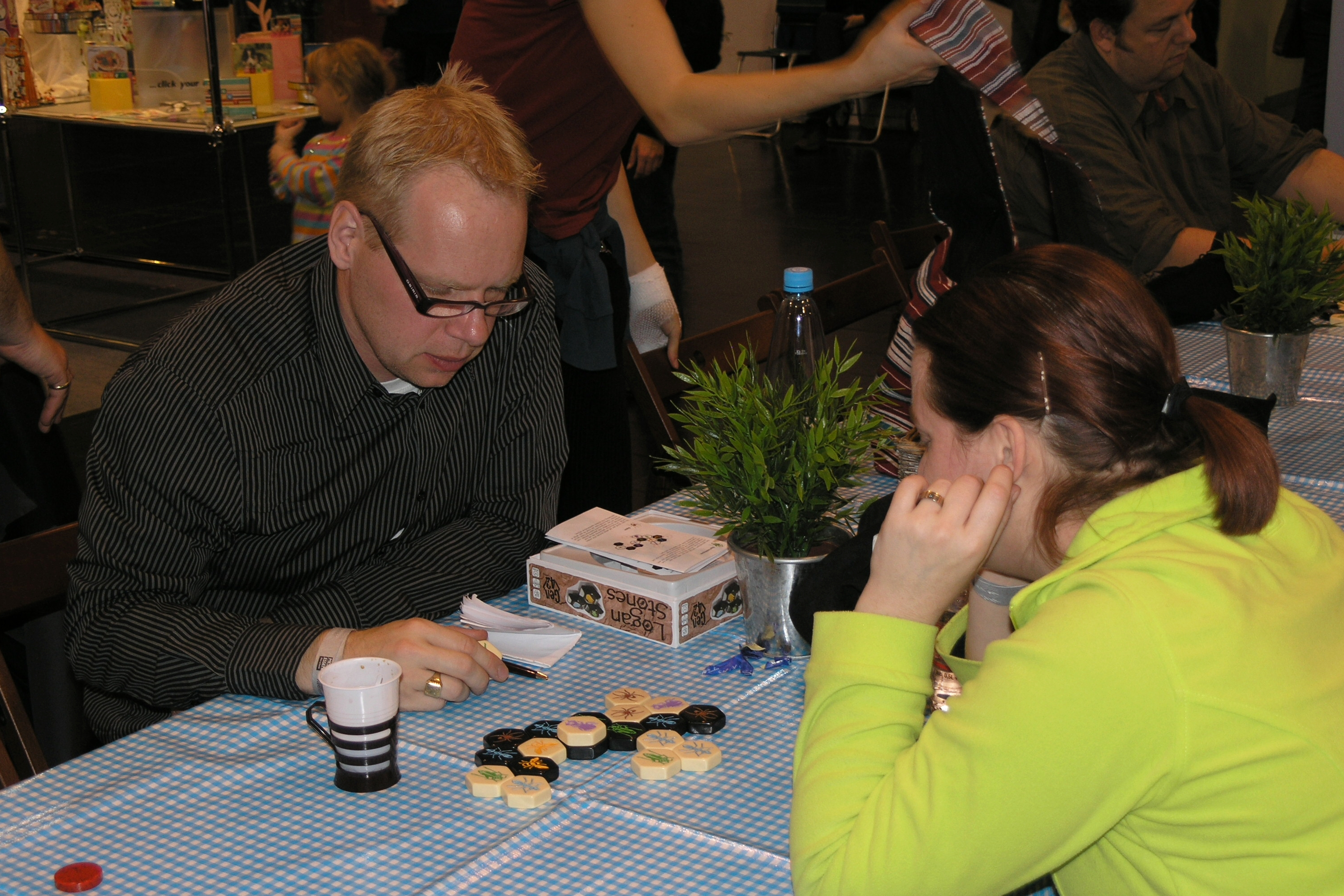 Personality rights warning Although this work is freely licensed or in the public domain, the person(s) shown may have rights that legally restrict certain re-uses unless those depicted consent to such uses. In these cases, a model release or other evidence of consent could protect you from infringement claims.